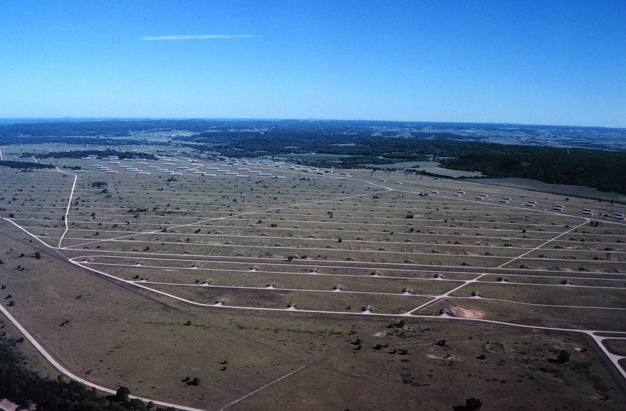 USGS Green Island, IA/IL, 1997 Color Oblique Photo, Slide 201 looking Northwest over the Savanna Army Depot's ammunition storage bunkers